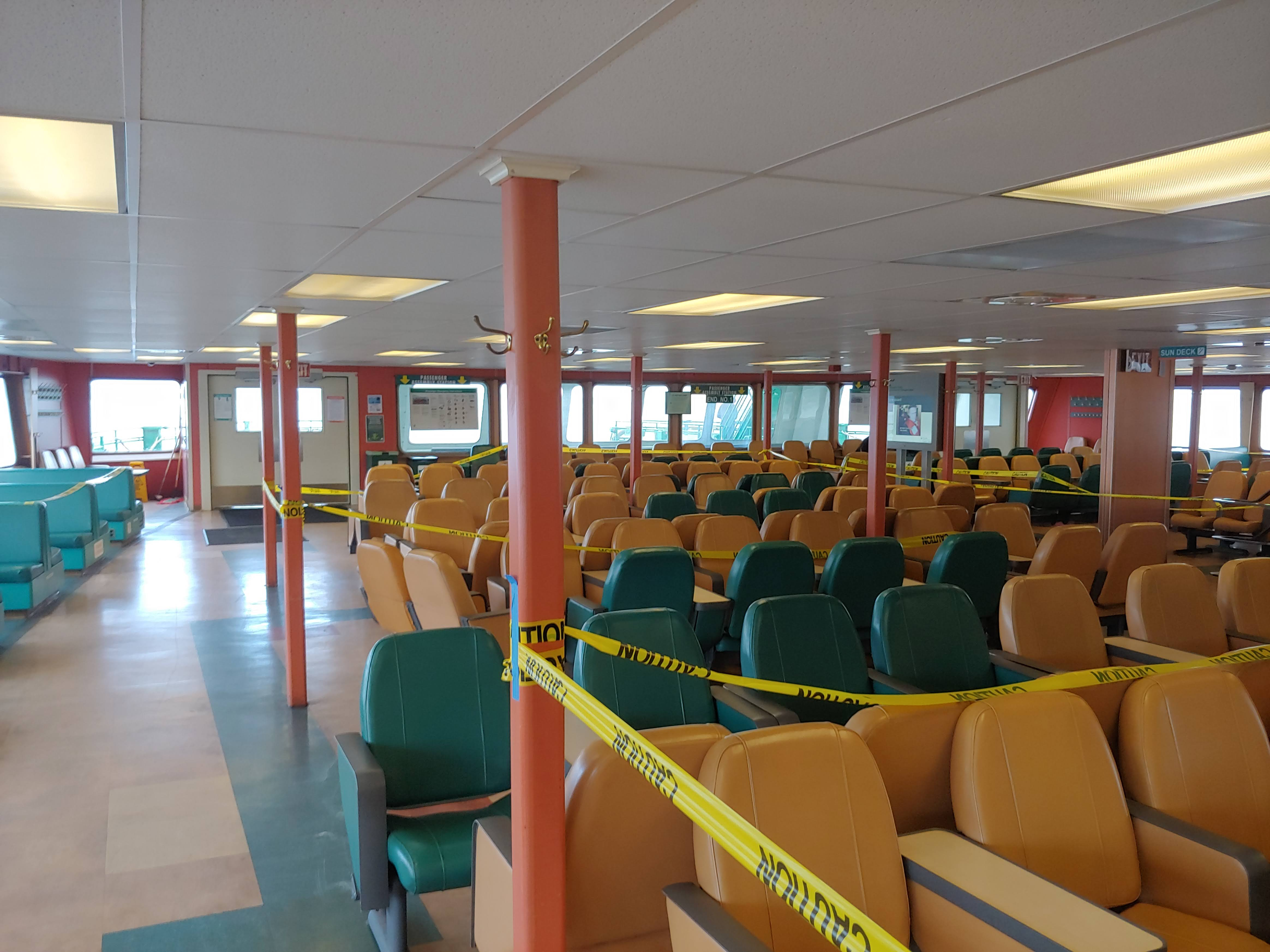 During the COVID-19 crisis, the passenger cabin of the MV Spokane was partially closed off and there were fewer than 5 individuals in the cabin.